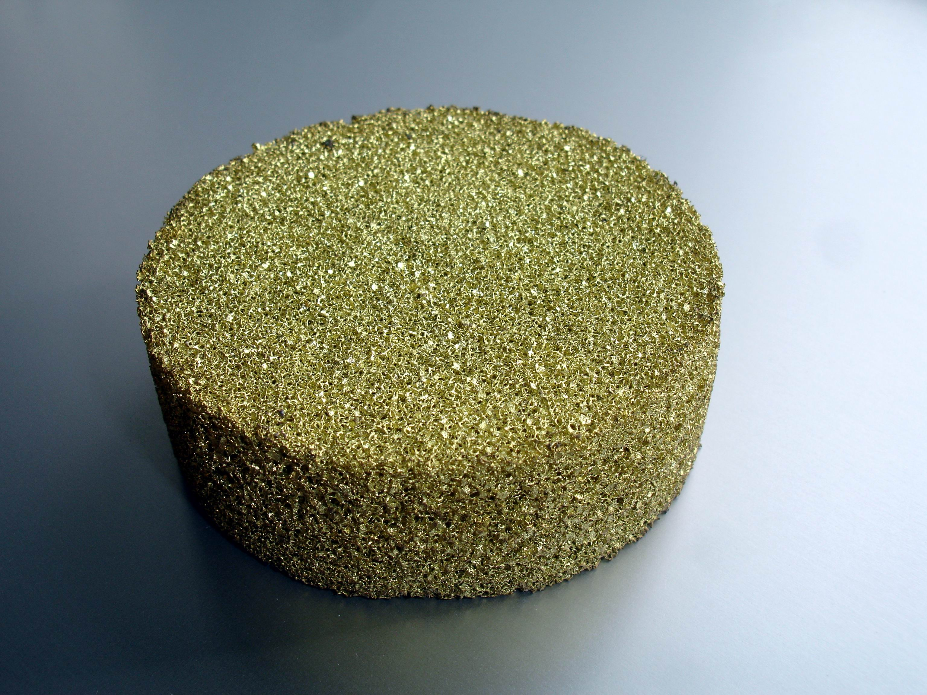 Brass water treatment disk manufactured by Porvair Advanced Materials (